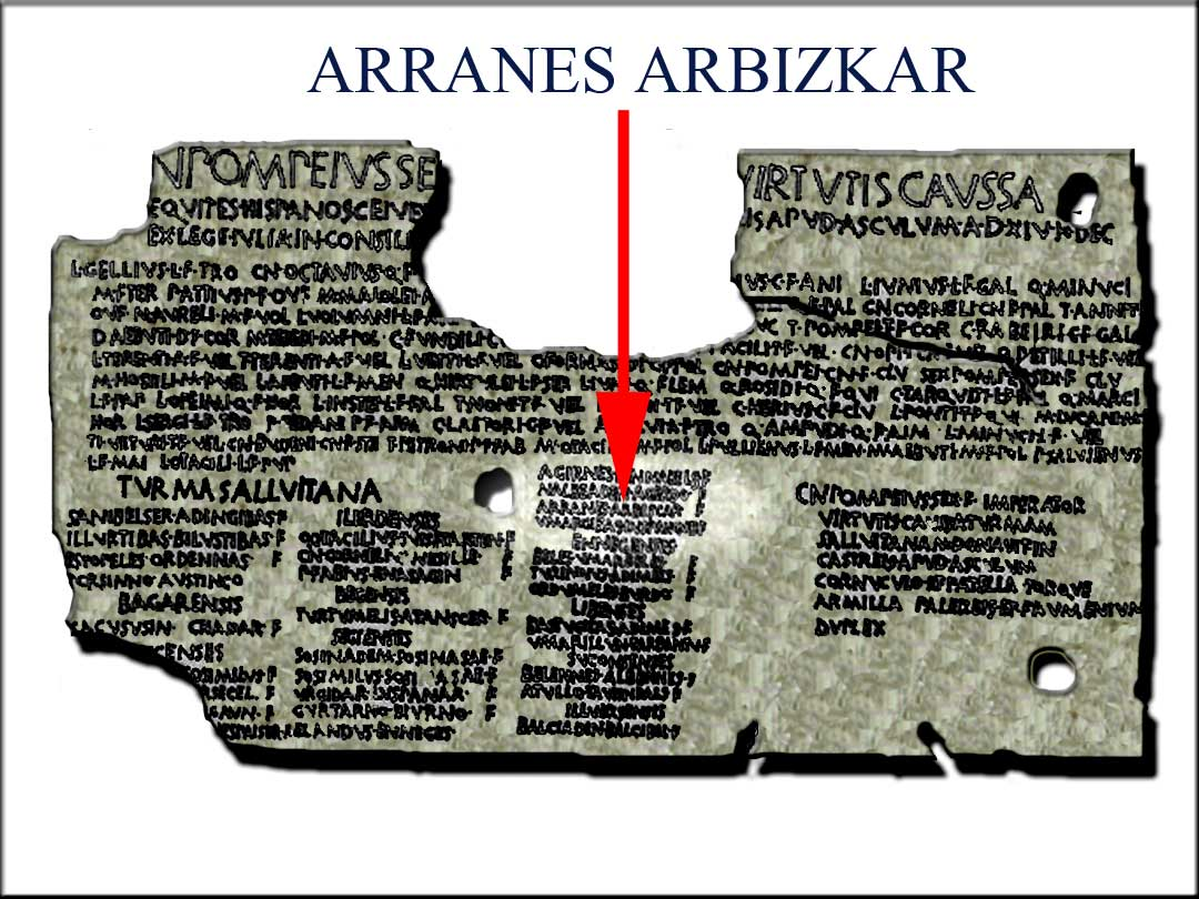 Position of name Arranes Arbizkar in Ascoli Bronze